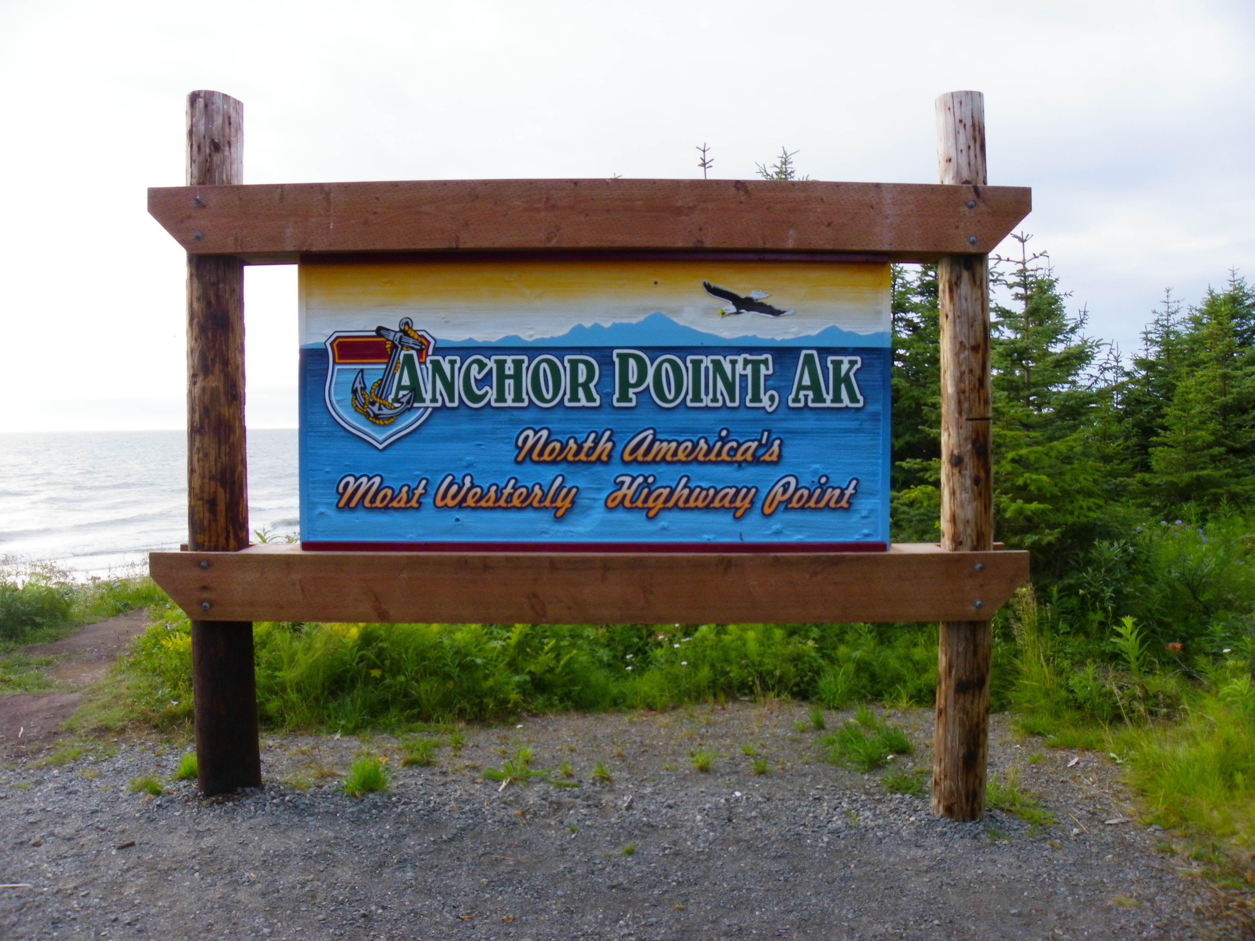 North America's most westerly highway point, Anchor Point Beach, Anchor River State Recreation Area, Alaska